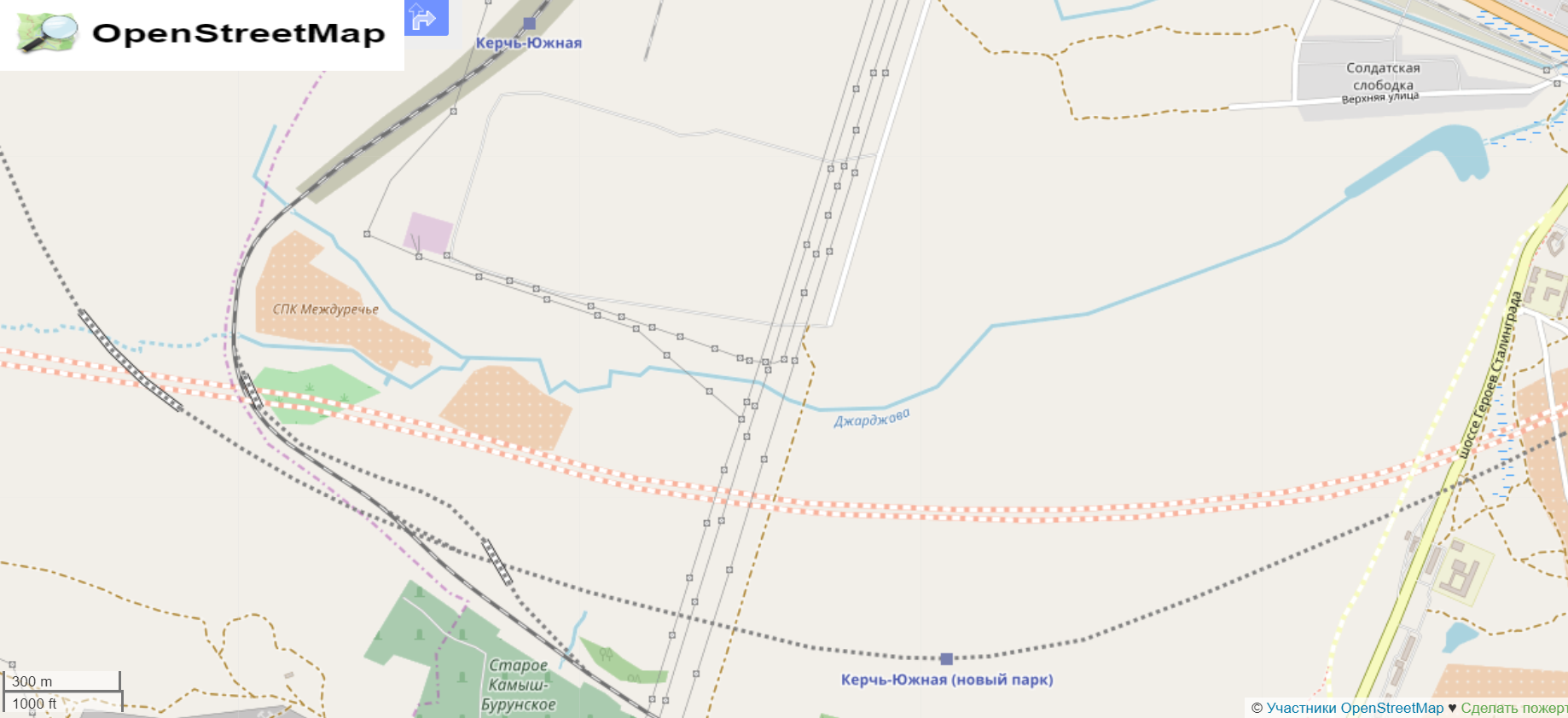 Керчь-Южная на OpenStreetMap This map of Керчь was created from OpenStreetMap project data, collected by the community. This map may be incomplete, and may contain errors. Don't rely solely on it for navigation.